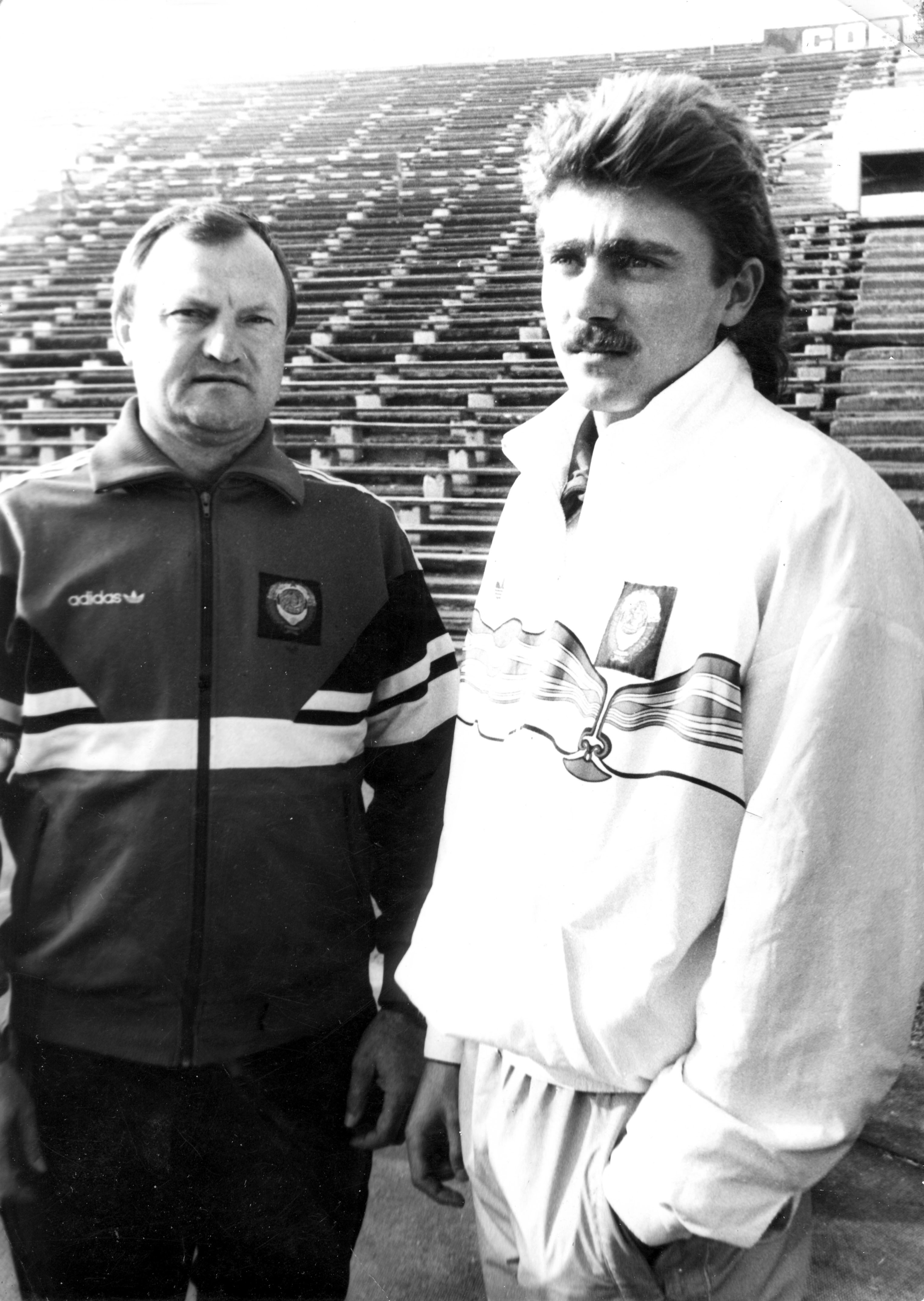 Oleg Evgenyevich Sakirkin (R) with 1988 with his coach Mikhail Vasilyevich Gannota (L)